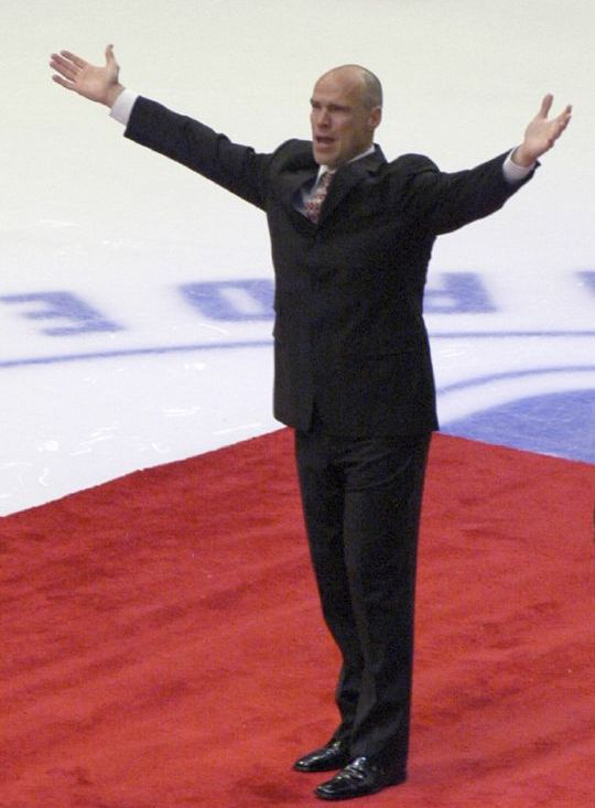 Mark Messier, Canadian hockey player, at his number retirement ceremony at Madison Square Garden